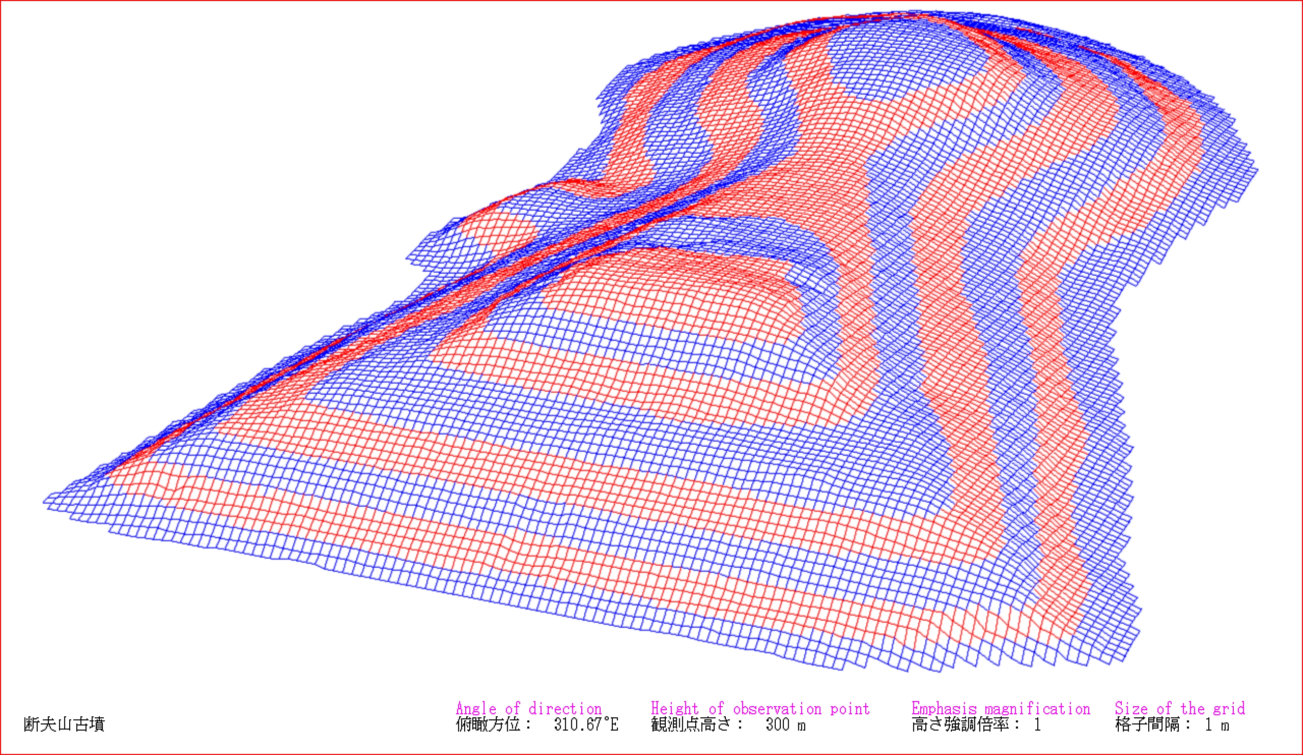 I who am a contributor drew the picture by a software which developed by myself. The survey map which I referred to depends on "第６回東海埋蔵文化財研究会実行委員編『断夫山古墳とその時代』愛知考古学談話会 (1989年）". This is a drawing of present situation (not a drawing of a restored mound). The drawing depends on combination of wire frame and height eight phases classification. Perspective projection.